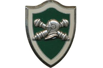 Regimental badge 501rd-503rd regiment of tanks.